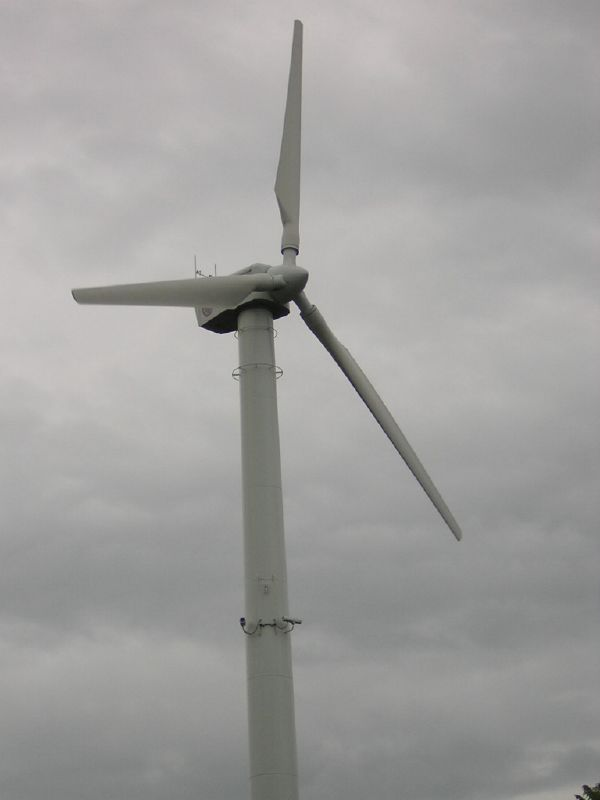 International Brotherhood of Electrical Workers wind turbine at 256 Freeport Street, Dorchester MA